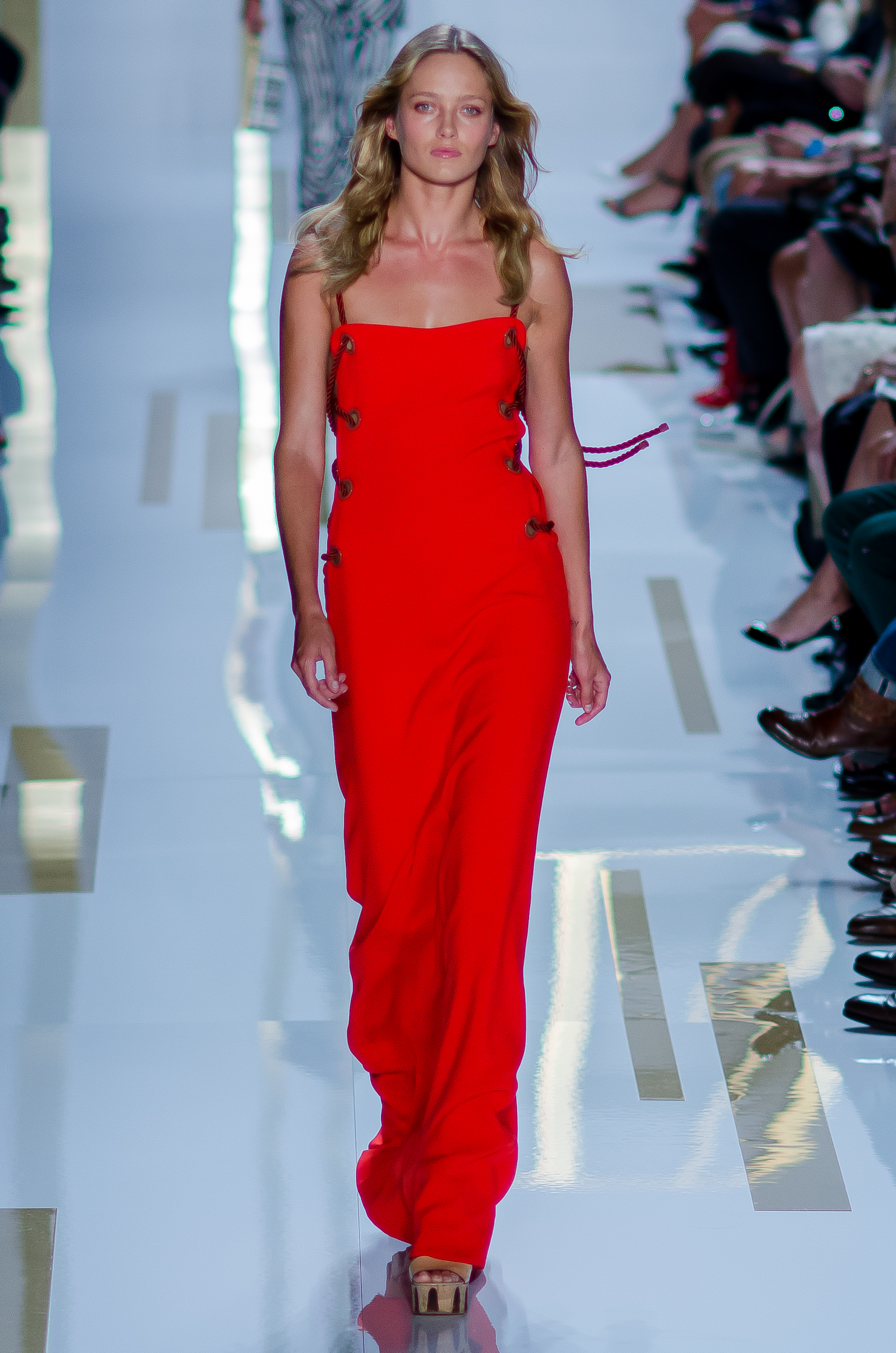 Karmen Pedaru walks the runway at the Diane von Fürstenberg Spring/Summer 2014 show at New York Fashion Week, September 2013.